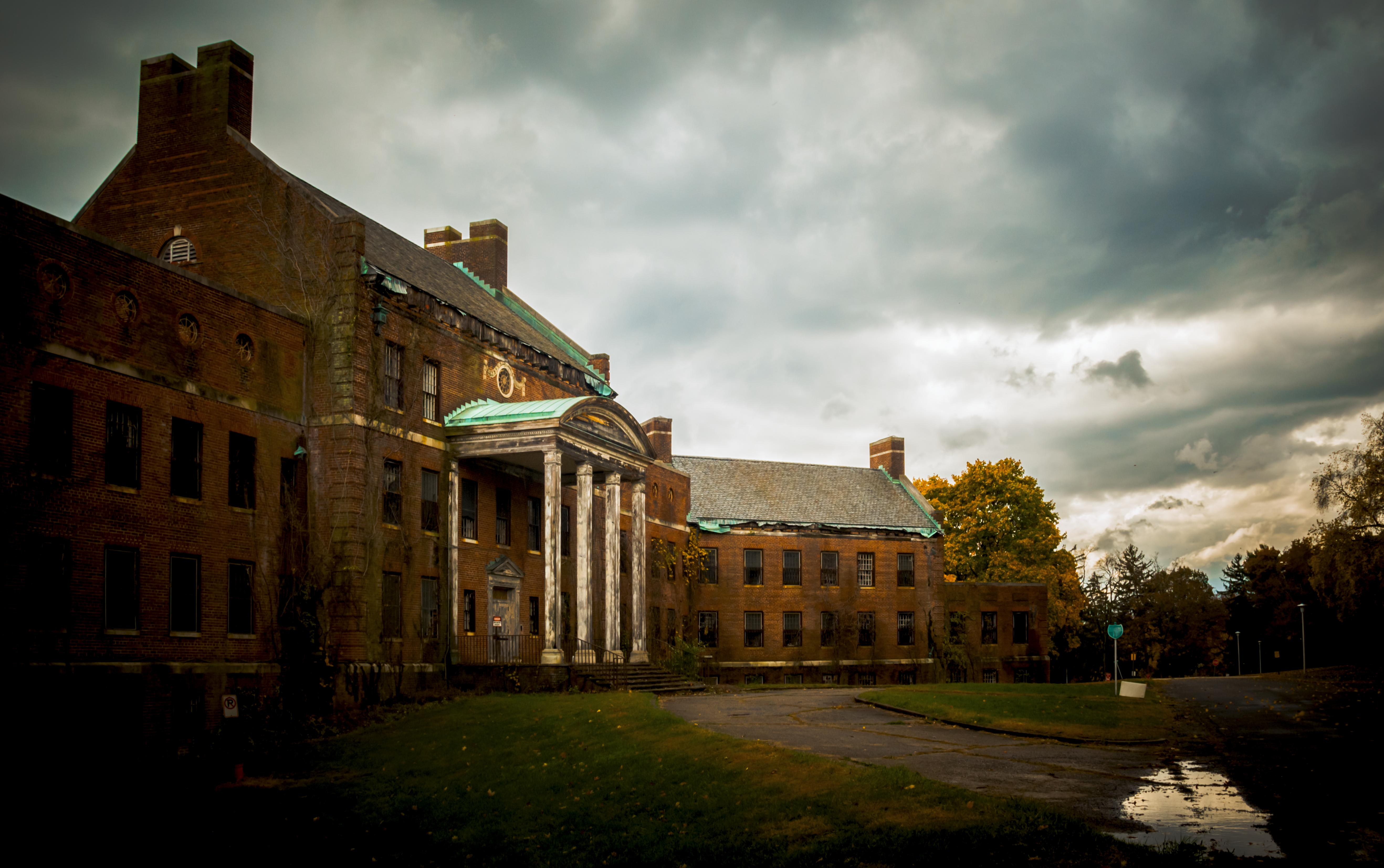 Norristown State Hospital, Pennsylvania An expansion of the asylum's campus was completed between 1907 and 1909, with the construction of several new buildings funding by a state grant. This period saw the construction of: the Acute Admissions Building (Building #17).